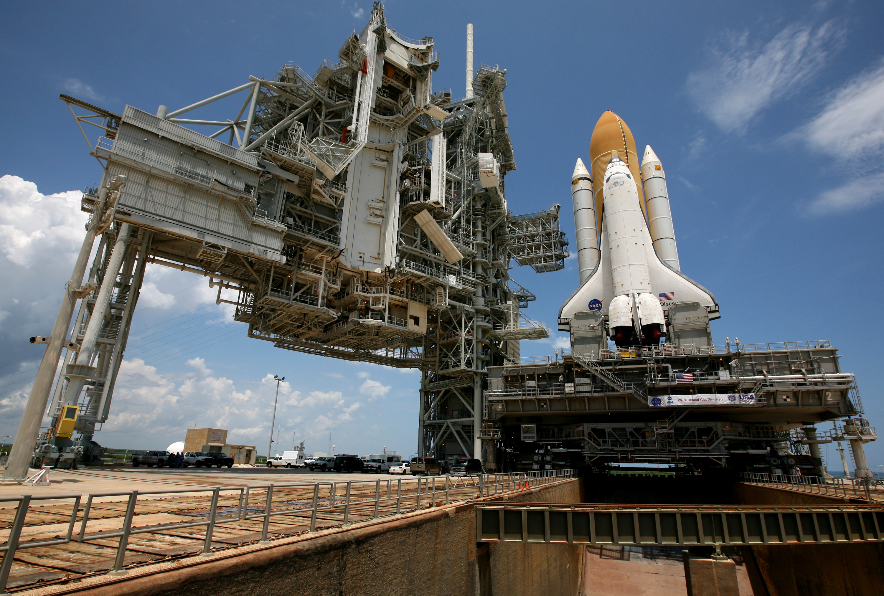 CAPE CANAVERAL, Fla. – Sitting on top of the mobile launcher platform, space shuttle Discovery straddles the flame trench, which channels the flames and smoke exhaust of the shuttle's solid rocket boosters away from the space shuttle during liftoff, on Launch Pad 39A at NASA's Kennedy Space Center in Florida. Traveling from the Vehicle Assembly Building, the shuttle took nearly 12 hours on the journey as technicians stopped several times to clear mud from the crawler's treads and bearings caused by the waterlogged crawlerway. First motion out of the VAB was at 2:07 a.m. EDT Aug. 4. Rollout was delayed approximately 2 hours due to lightning in the area. Discovery was secured, or "hard down" to Launch Pad 39A at 1:50 p.m. EDT. "Hard down" means that the mobile launcher platform, or MLP, is sitting on the pedestals on the pad, and the crawler has been jacked down, thus transferring the weight of the MLP from the crawler to the pad pedestals. Discovery's 13-day flight will deliver a new crew member and 33,000 pounds of equipment to the International Space Station. The equipment includes science and storage racks, a freezer to store research samples, a new sleeping compartment and the COLBERT treadmill. Launch of Discovery on its STS-128 mission is targeted for late August.